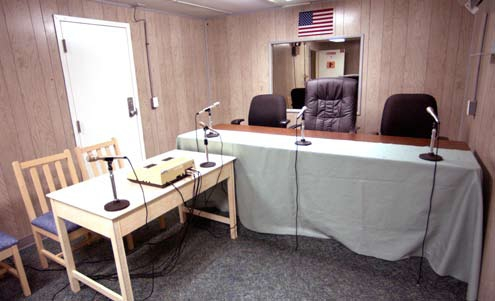 Trailer where captives Combatant Status Review Tribunals were held.